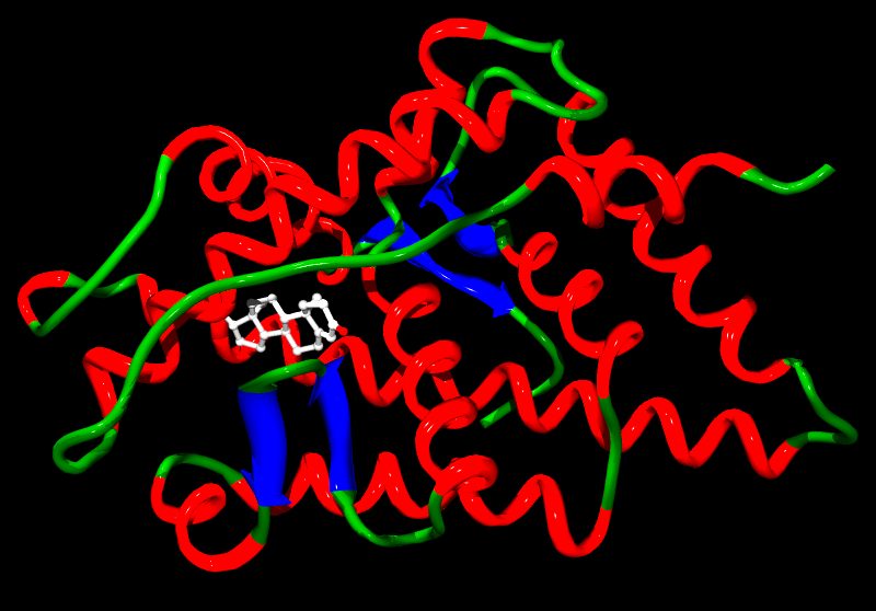 Structure of the human androgen receptor bound to testosterone.[1] Generated from PDB 2AM9. ↑ Pereira de Jésus-Tran K, Côté PL, Cantin L, Blanchet J, Labrie F, Breton R (2006). "Comparison of crystal structures of human androgen receptor ligand-binding domain complexed with various agonists reveals molecular determinants responsible for binding affinity". Protein Sci. 15 (5): 987-99. PMID 16641486.